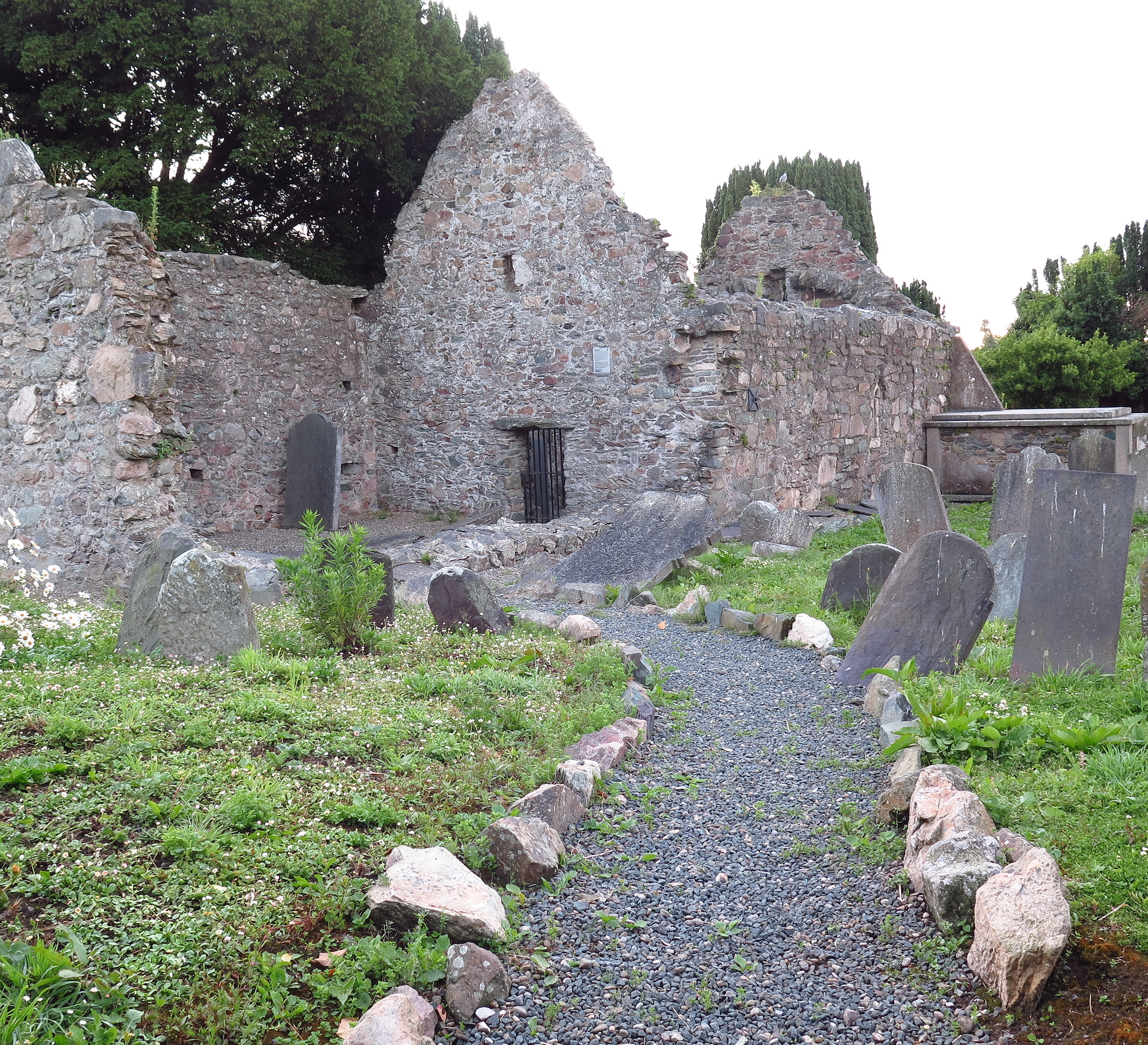 Kilcoole Church - County Wicklow, Ireland.